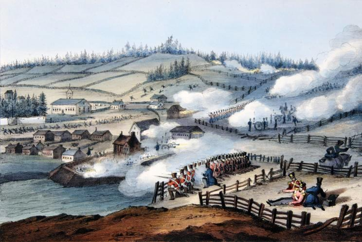 Print, Attack on St. Charles, Lord Charles Beauclerk (1813-1842), Ink and watercolour on paper - Lithography, 17.3 x 26.6 cm